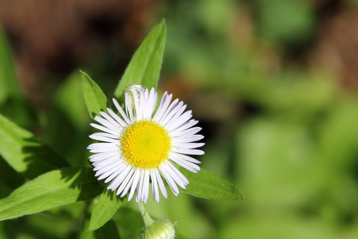 My leaf blades are elliptic to broadly ovate, rarely spatulate, about 4 to 17 cm long and 1.5 to 4 cm wide. I am listed as an invasive plant in China. Though I love fertile land with sunny exposure, I am tough enough to grow in dry and arid soil.